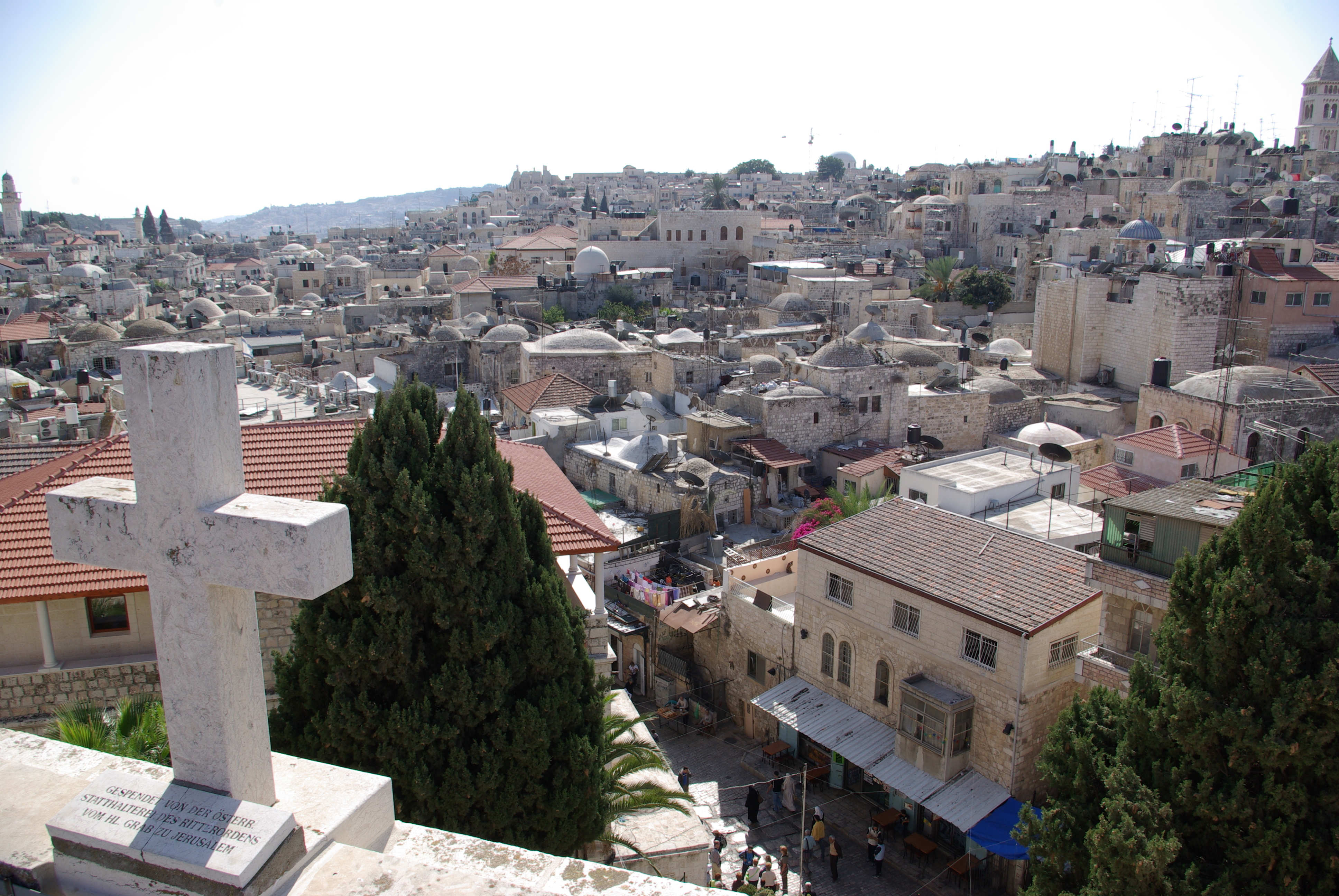 Old town of Jerusalem, seen from the roof of the Austrian Hospice